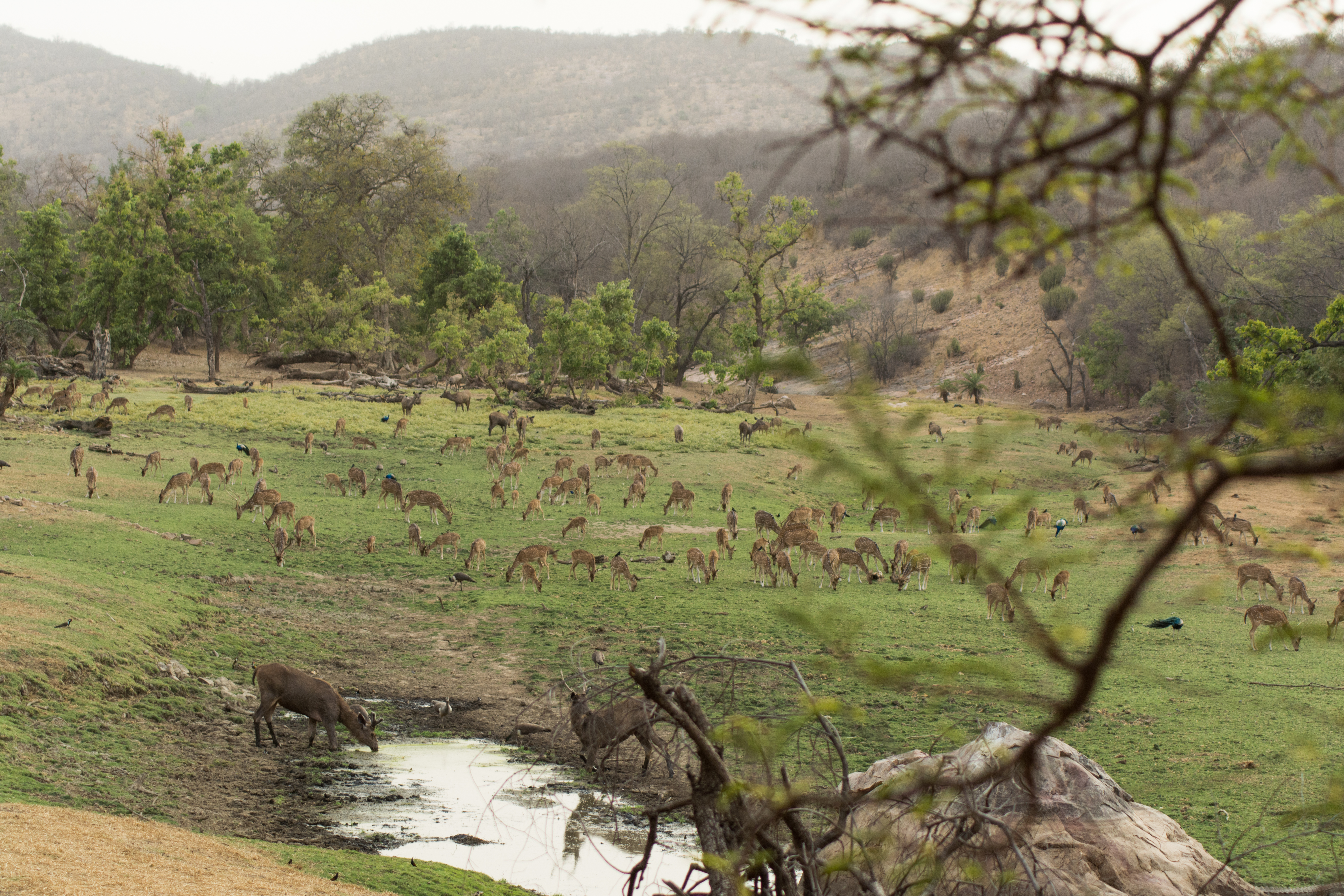 Ranthambore National Park My first national park I visited.